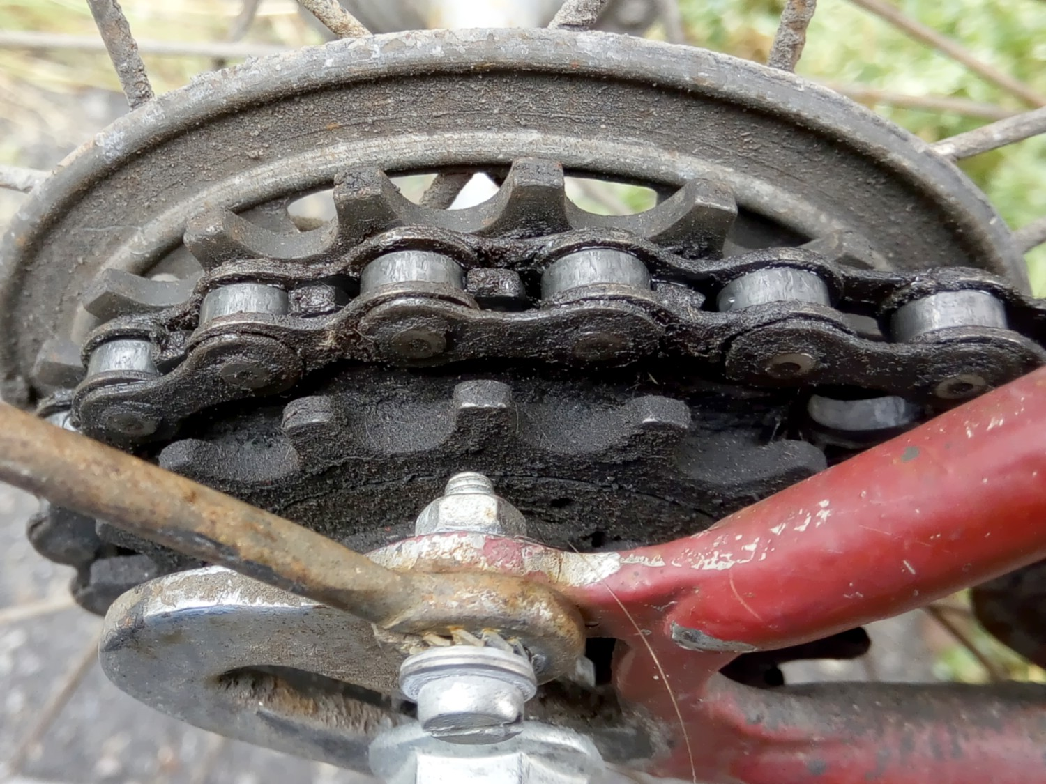 Sprocket set with a total of 3 ratios